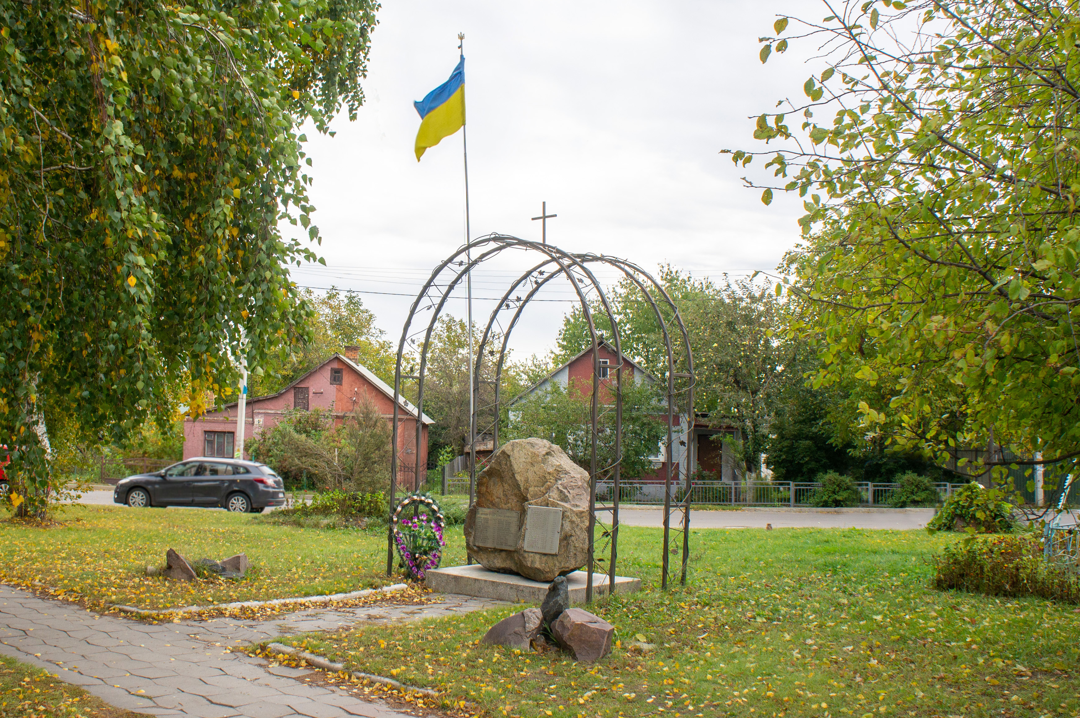 kvasyliv